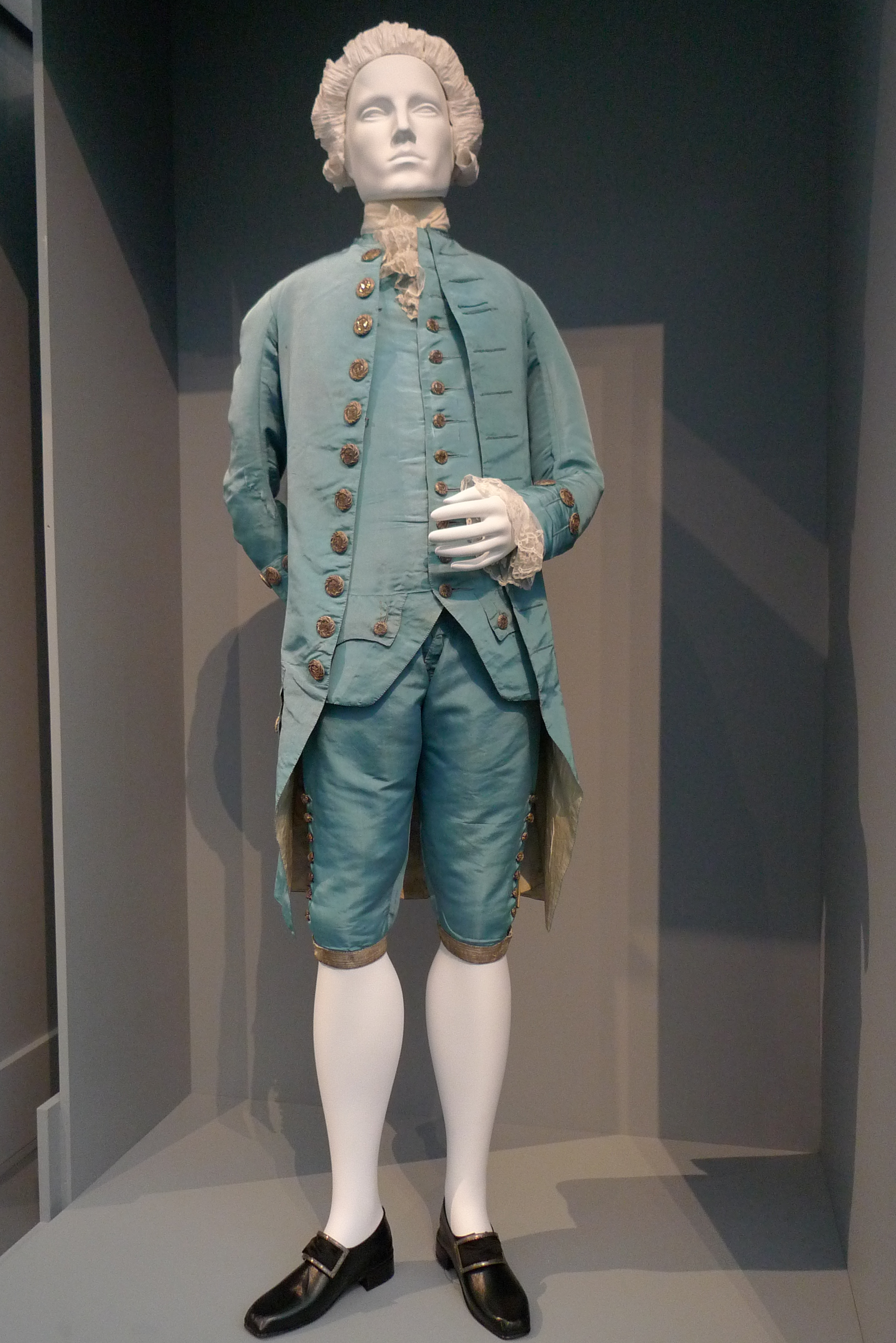 French Suit, 1765 - Fashioning Fashion - LACMA From the exhibition "Fashioning Fashion: European Dress in Detail, 1700-1915" at the Los Angeles County Museum of Art. On view from October 2, 2010 - March 6, 2011.